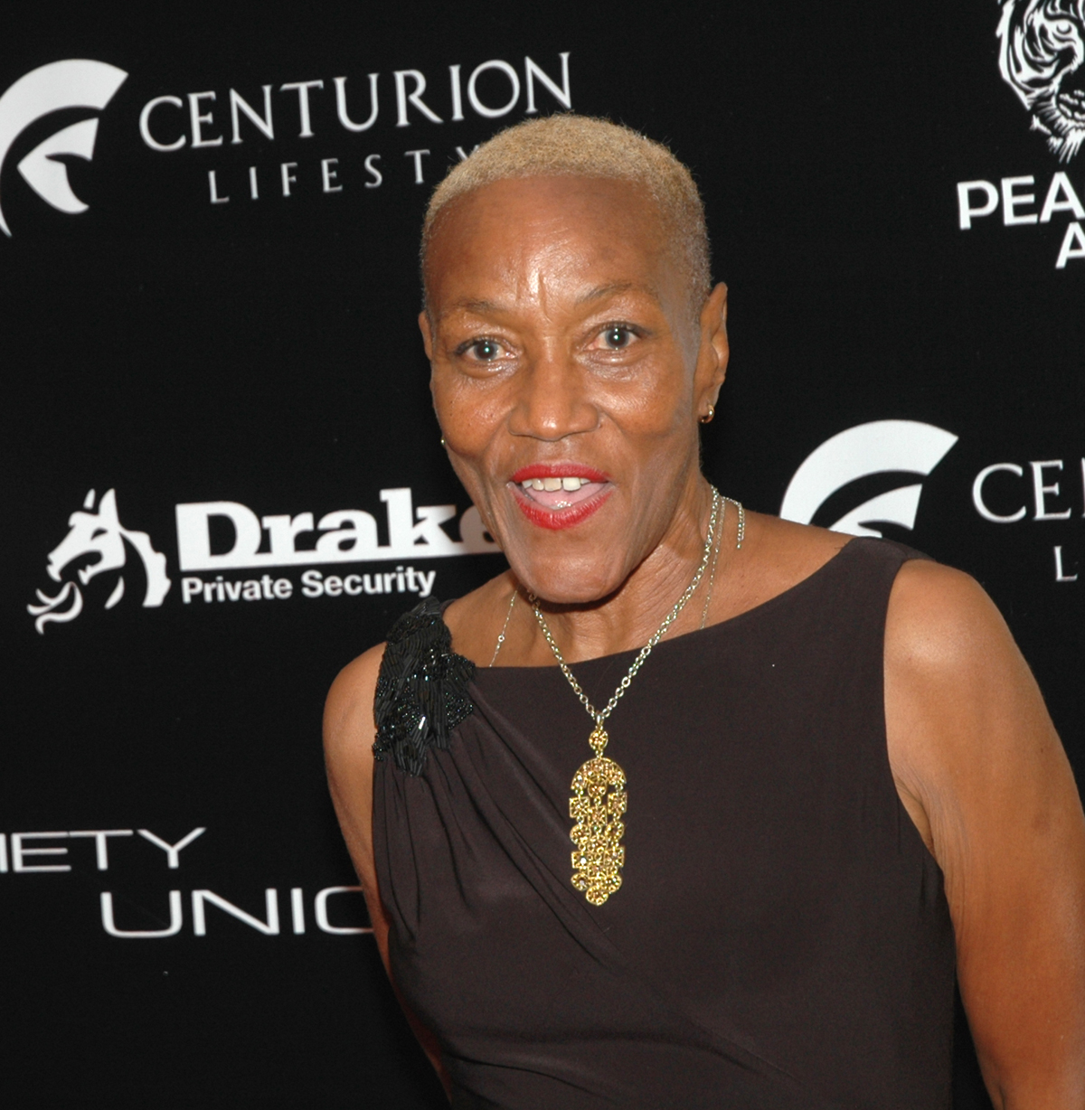 Gloria Jones at James Cameron Party after Oskar 2014, Beverly Hills